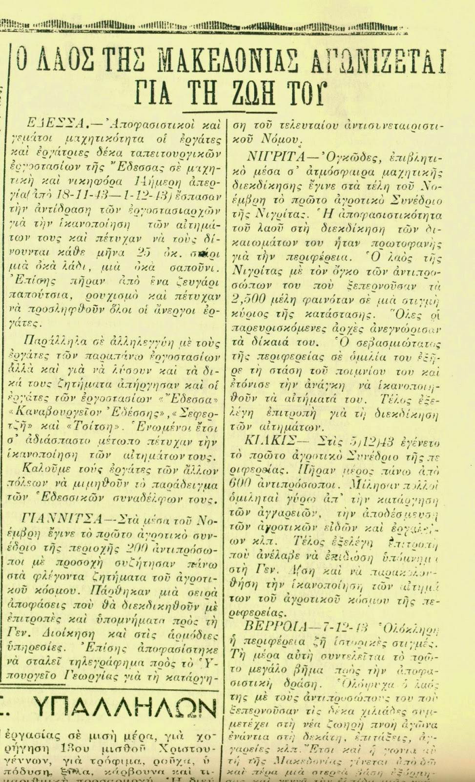 Greek underground newspaper “Eleftheria”, published in Nazi-occupied Macedonia, dated December 17,1943.